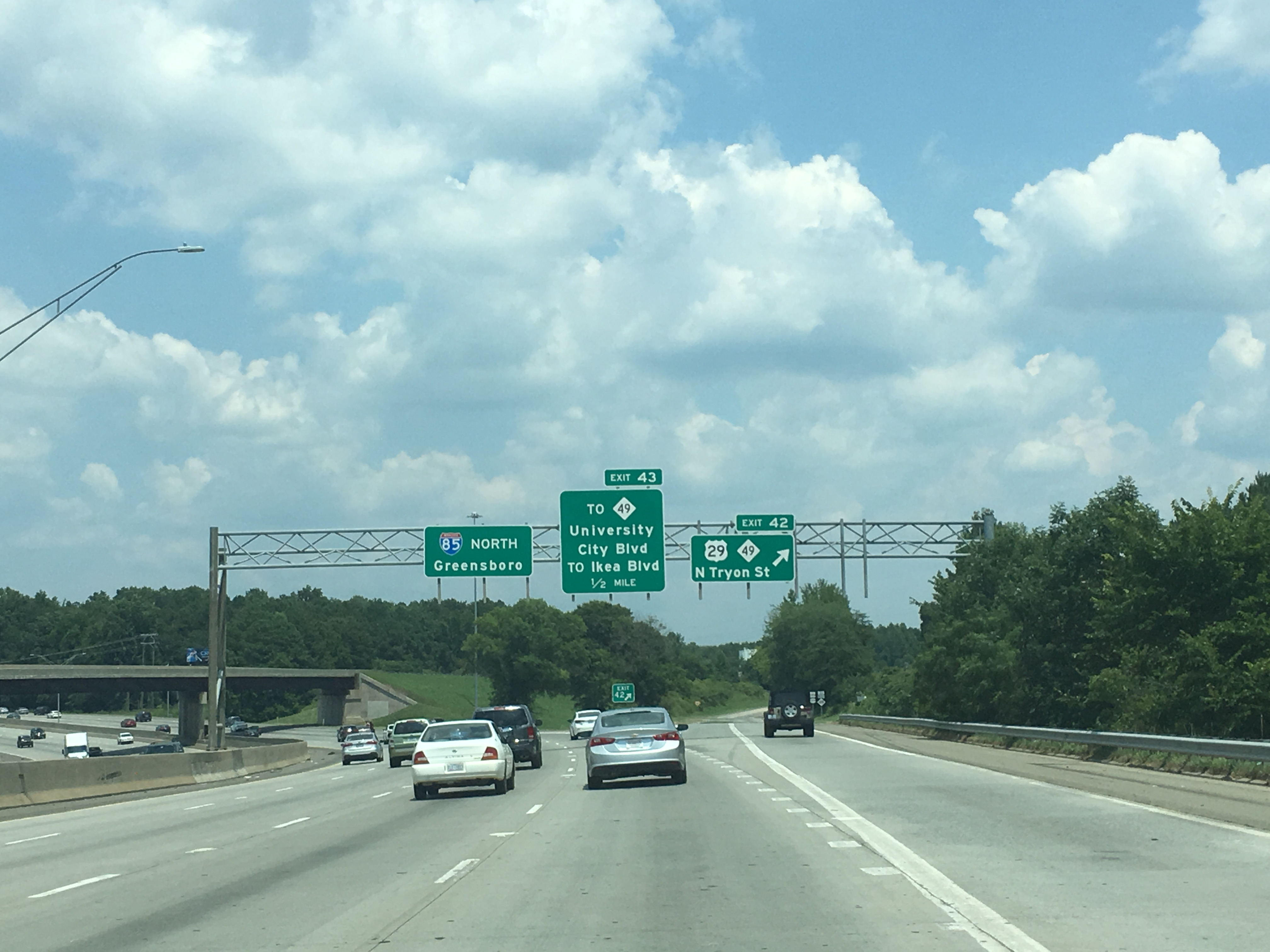 Northbound Interstate 85 at the exit for U.S. Route 29/North Carolina Highway 49 (exit 42) in Charlotte, North Carolina